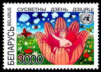 Stamp of Belarus